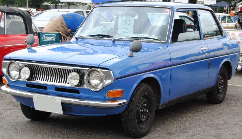 Toyota Publica SL